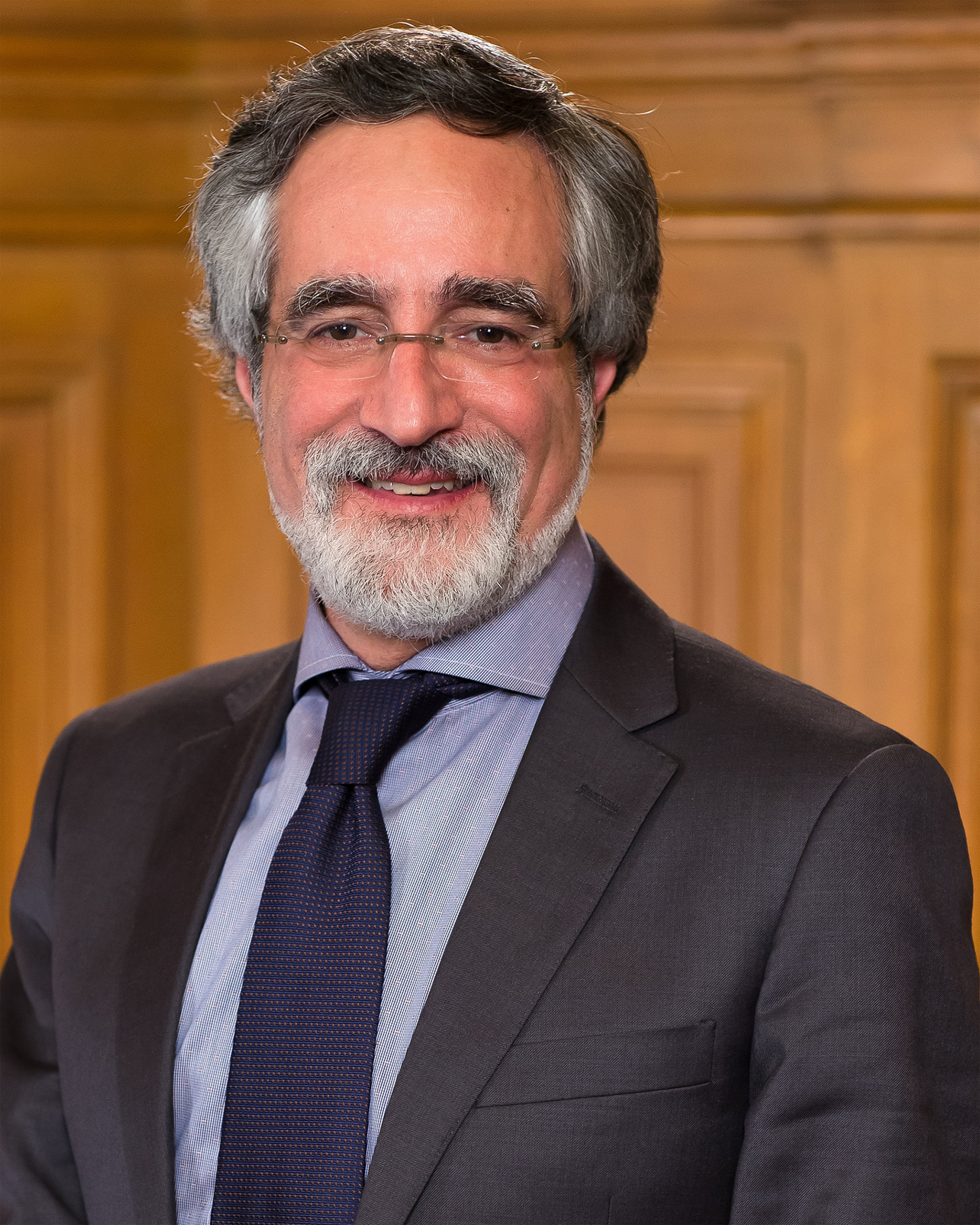 Picture of Aaron Peskin